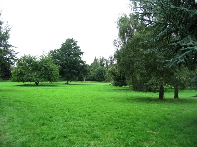 Wandlebury ring garden Inside the walled garden.